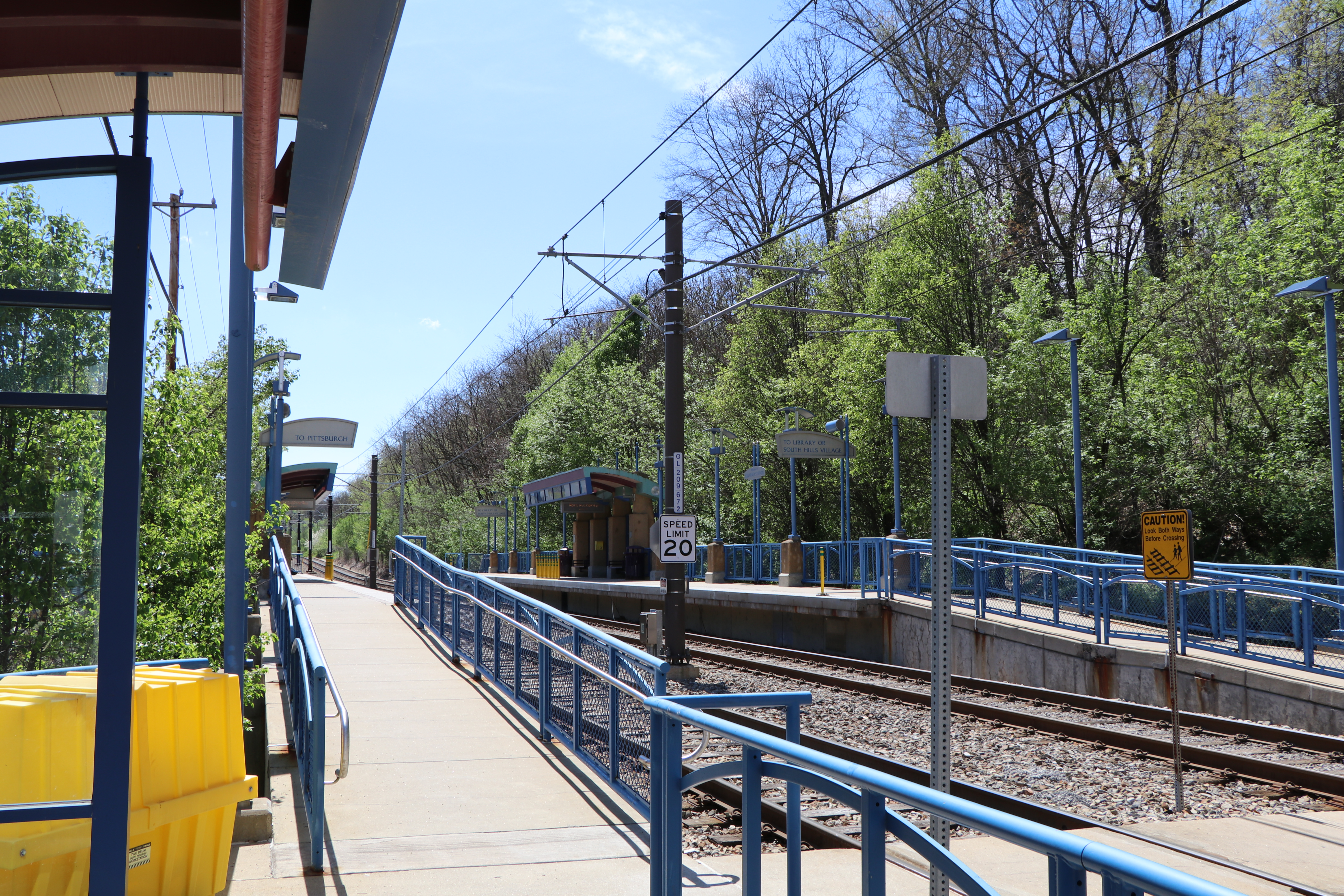 Killarney station on the Blue Line, Castle Shannon, PA. View looking south, with the inbound platform on the left.